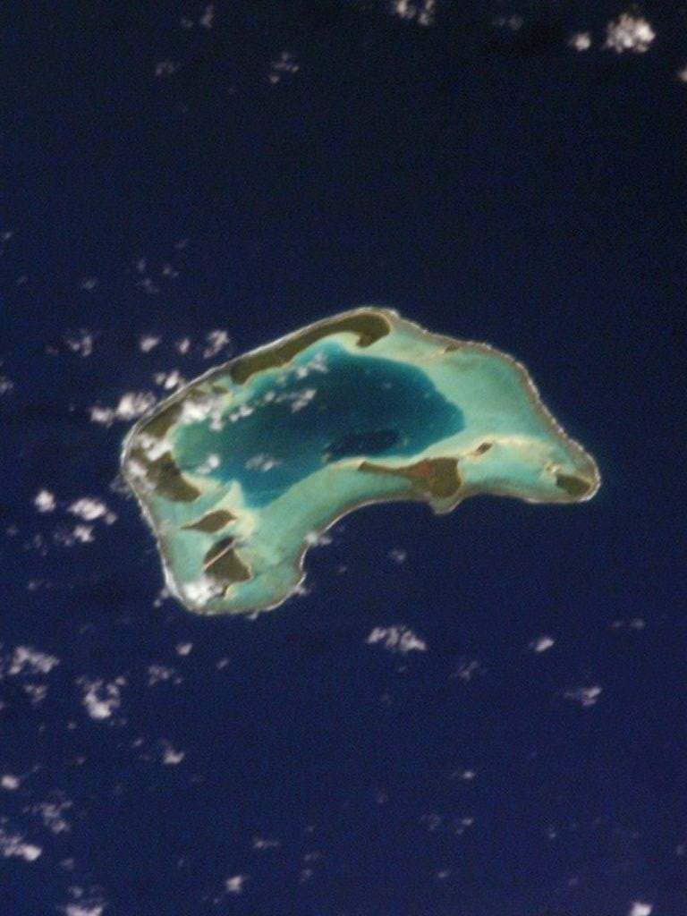 NASA astronaut image of Tetiaroa atoll (Society Islands, French Polynesia) in the Pacific Ocean